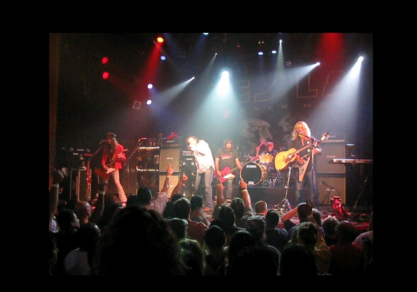 Tesla "Forever More" at the Chance in Poughkeepsie, NY. April 27, 2009.